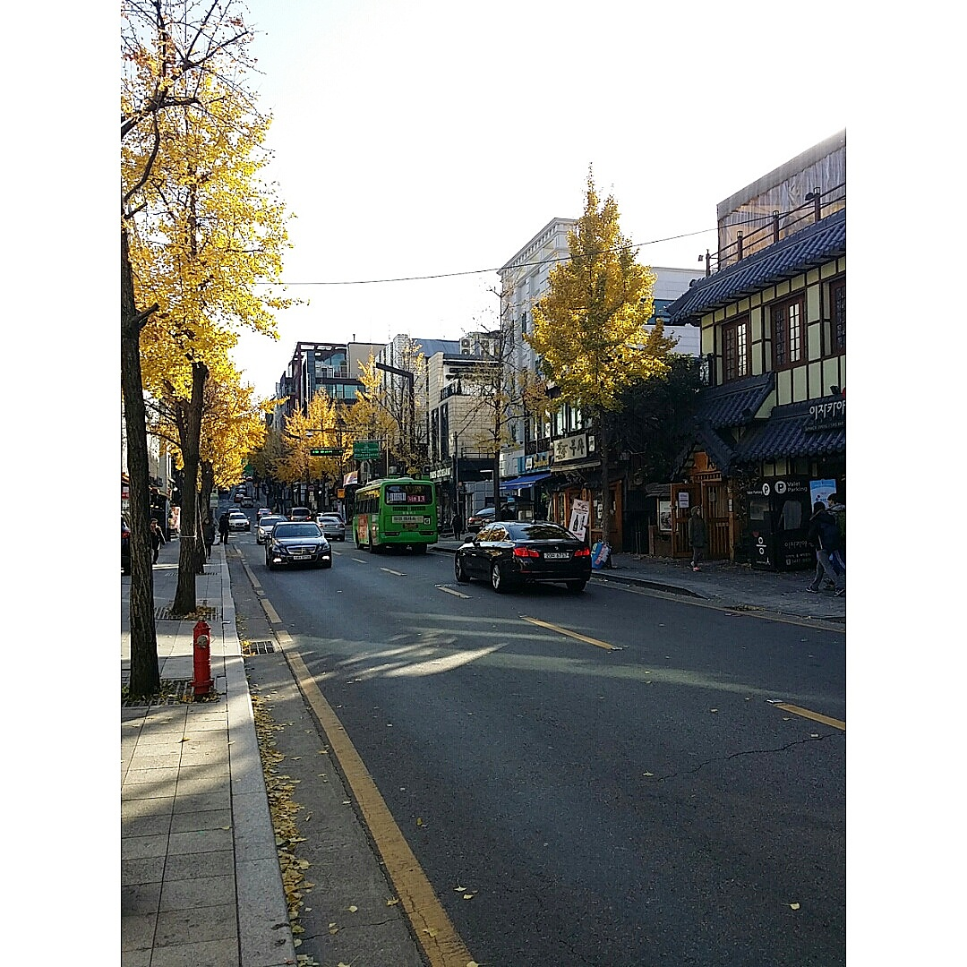 Afternoon